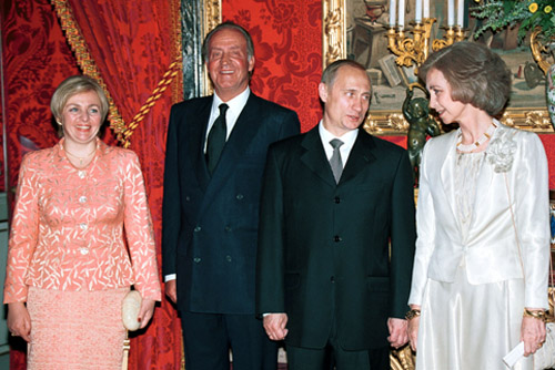 MADRID. President Vladimir Putin, King Juan Carlos I of Spain and Queen Sophia (right) before a dinner in the Oriente Palace.